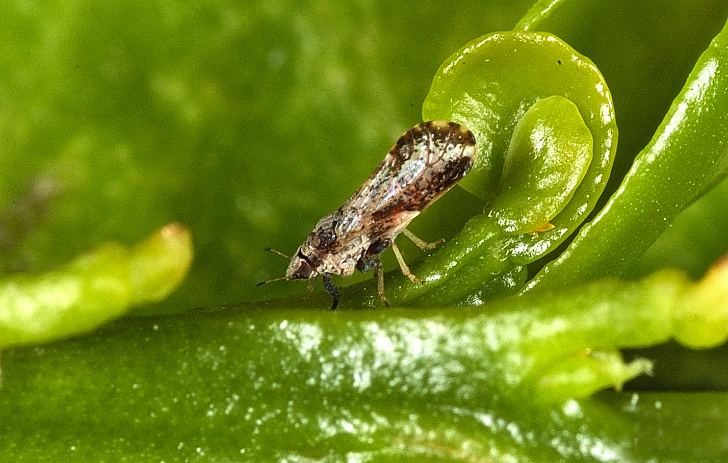 Adult Asian citrus psyllid, Diaphorina citri, (2-3 millimeters long) on a young citrus leaf